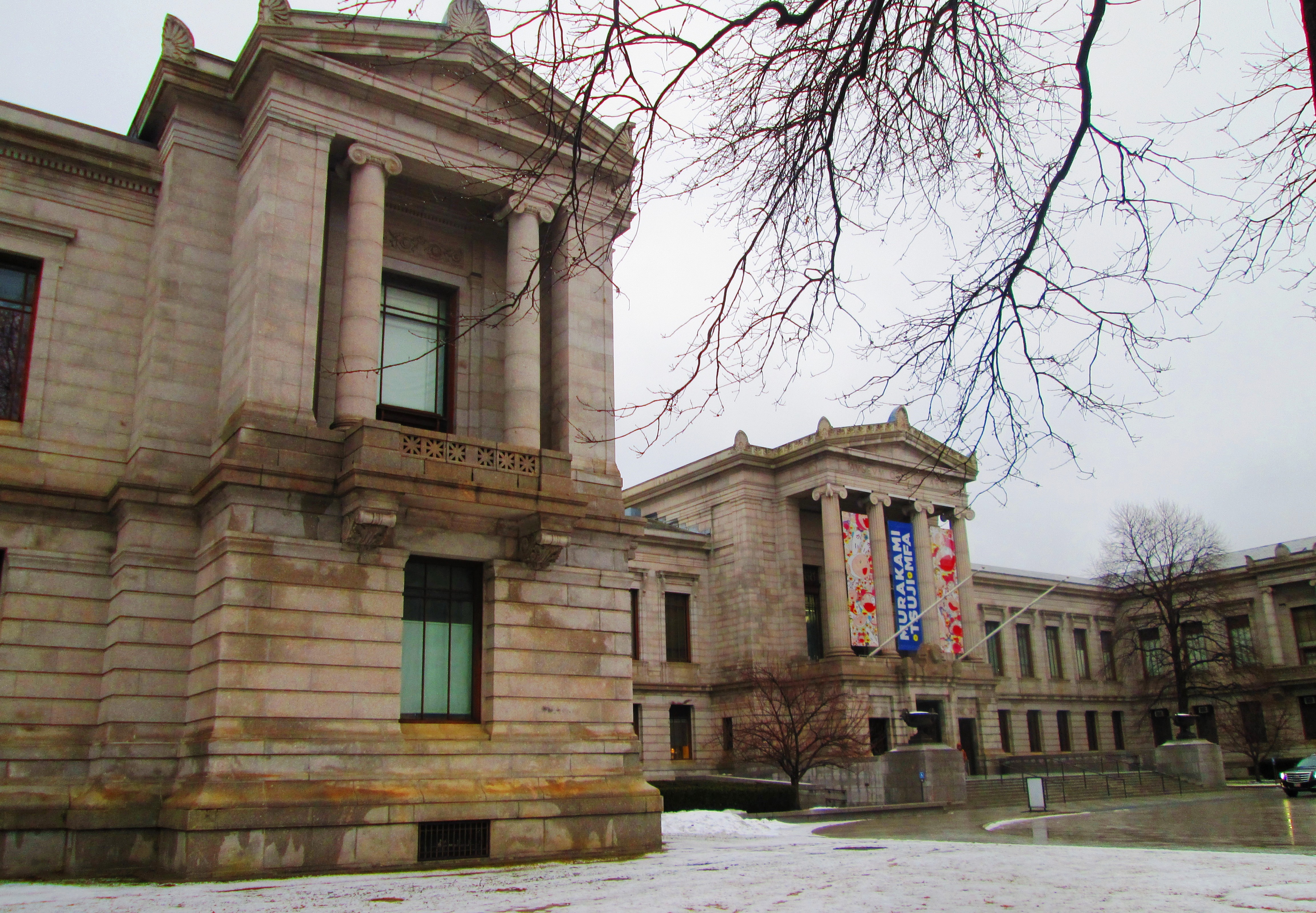 The Museum of Fine Arts in Boston, Massachusetts was founded in 1870 and was located on the top floor of the Boston Athenaeum. It moved to a building on Copley Square at Dartmouth and St. James Streets in 1876. Its current Classical Revival building on Huntington Avenue in the Fenway-Kenmore neighborhood was built in sections as funding became available. The initial section, on Huntington Avenue, was designed by Guy Lowell and was built in 1907-09. The wing on the Fenway opened in 1915, and the decorative Arts Wing was built in 1928 and expanded in 1968. An addition designed by Hugh Stubbins and Associates was built in 1966-70, and another by the Architects Collaborative in 1976. The West Wing, now the Linde Family Wing for Contemporary Art, was designed by I. M. Pei and opened in 1981. The Tenshin-En Japanese Garden designed by Kinsaku Nakane opened in 1988, and the Norma Jean Calderwood Garden Court and Terrace opened in 1997. (Source: AIA Guide to Boston (2nd ed.))